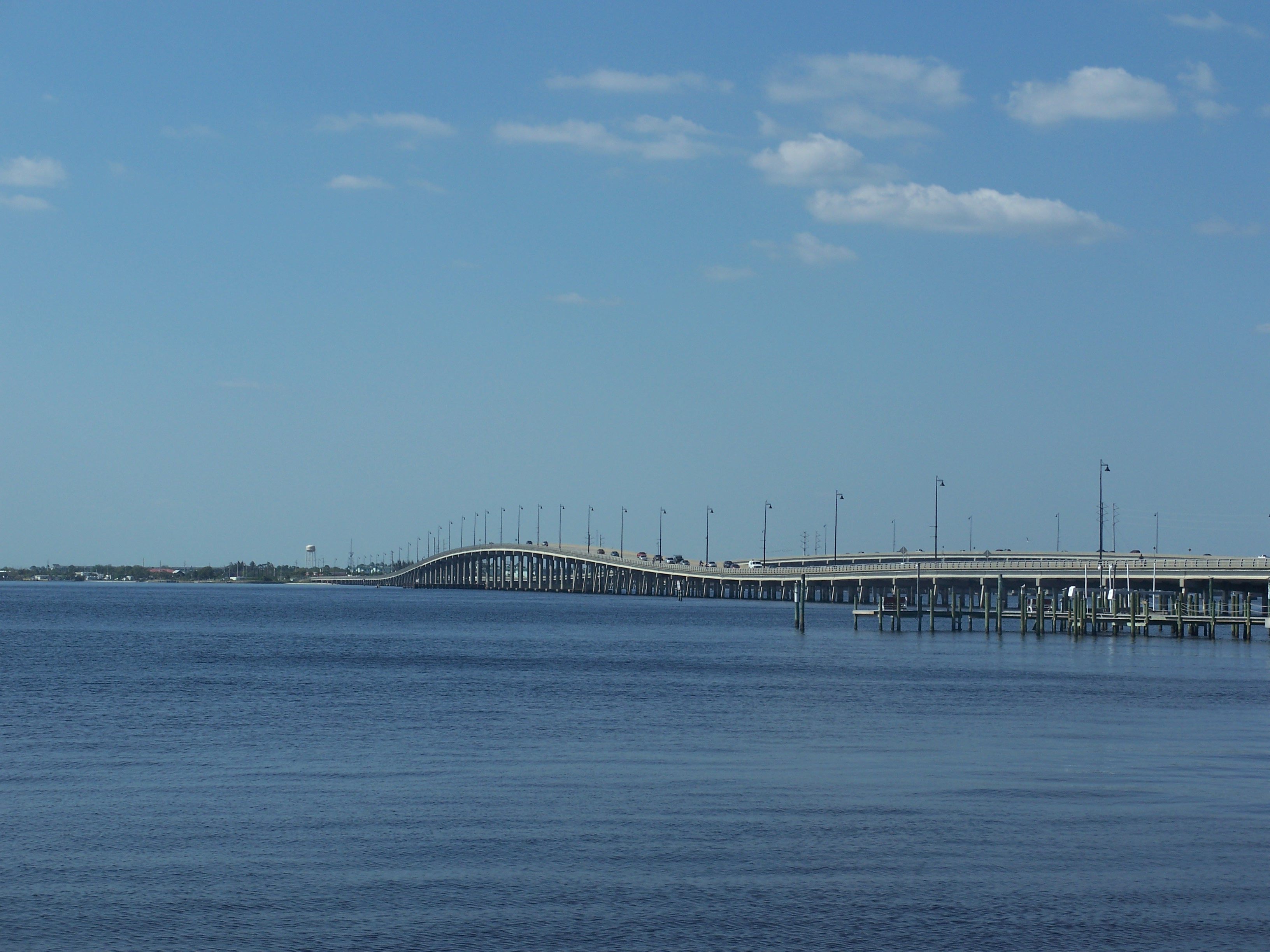 Punta Gorda, Florida: Tamiami Trail: Cross Street bridge over the Peace River.